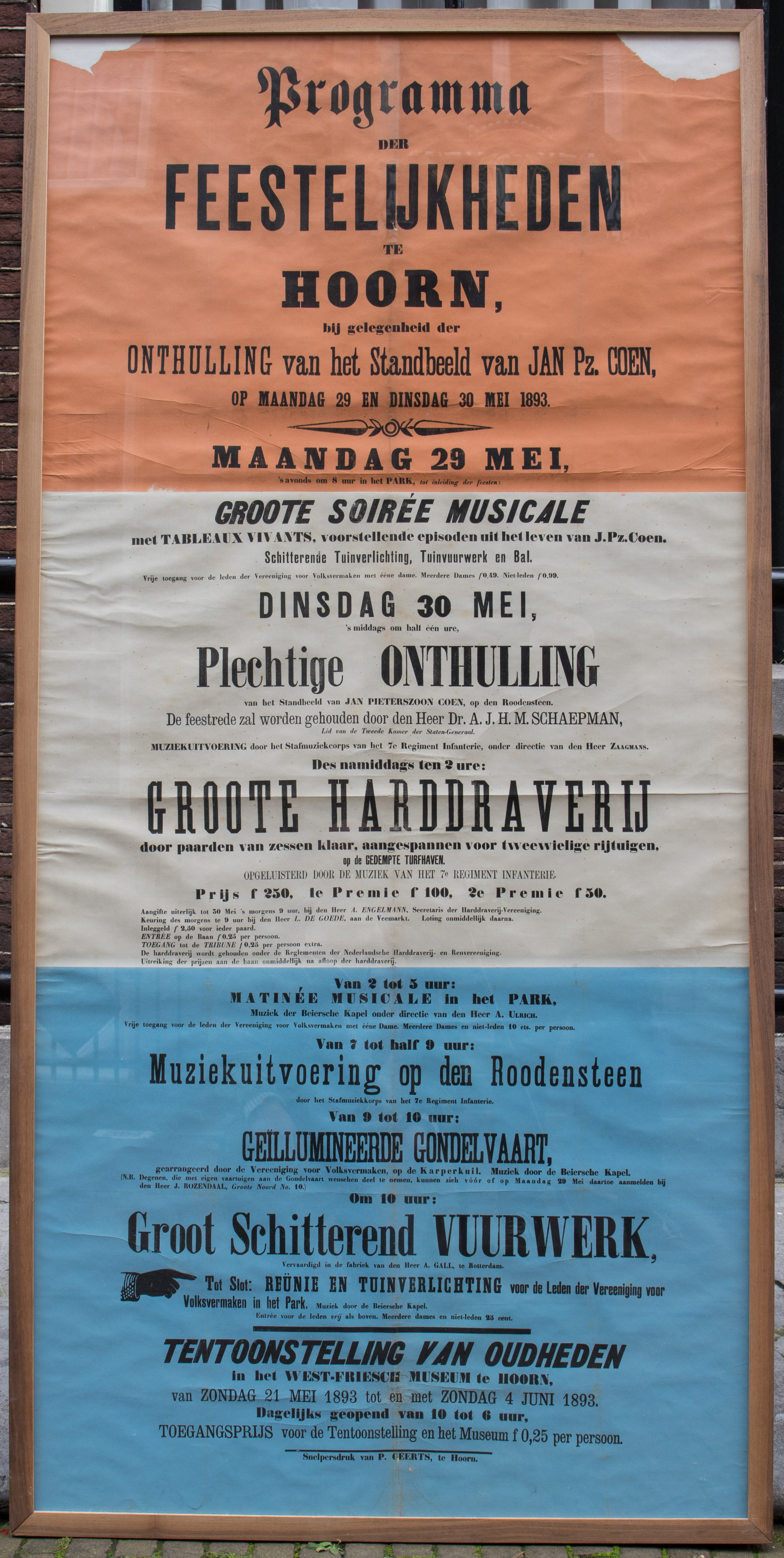 poster from 1893, collection H.A.M. Stumpel, size 166 × 80 cm